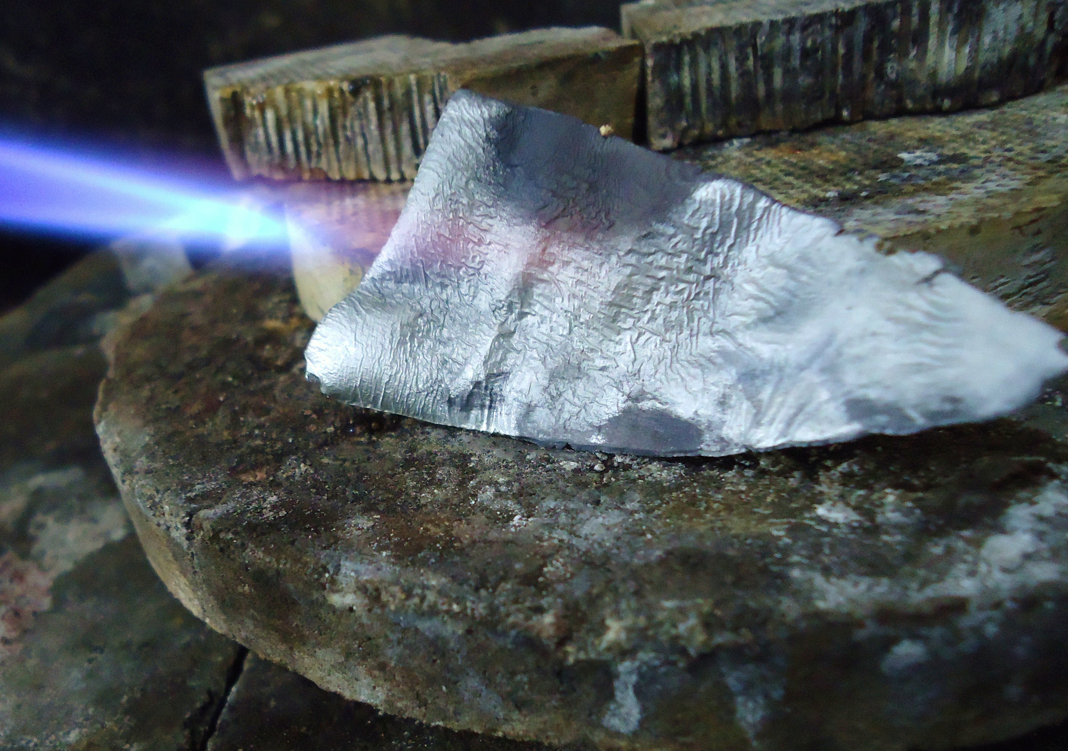 Creating the "wrinkles" that caracterize reticulation on a 820-silver sheet. Mauro Cateb, Brazilian jeweler and silversmith.